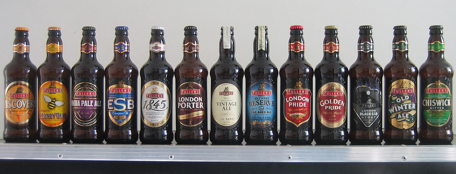 An assortment of Fuller's beer bottles. From left to right: Discovery Blonde Beer, Organic Honey Dew, India Pale Ale, ESB (Extra Special Bitter), 1845 Celebration, London Porter, Vintage Ale 2012 (bottle no. 30991), Brewer's Reserve No. 4 (bottle no. 31694), London Pride, Golden Pride, London Black Cab Stout, Old Winter Ale, Chiswick Bitter.